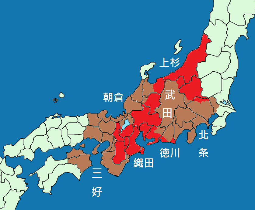 Sengoku period 1572 besiege